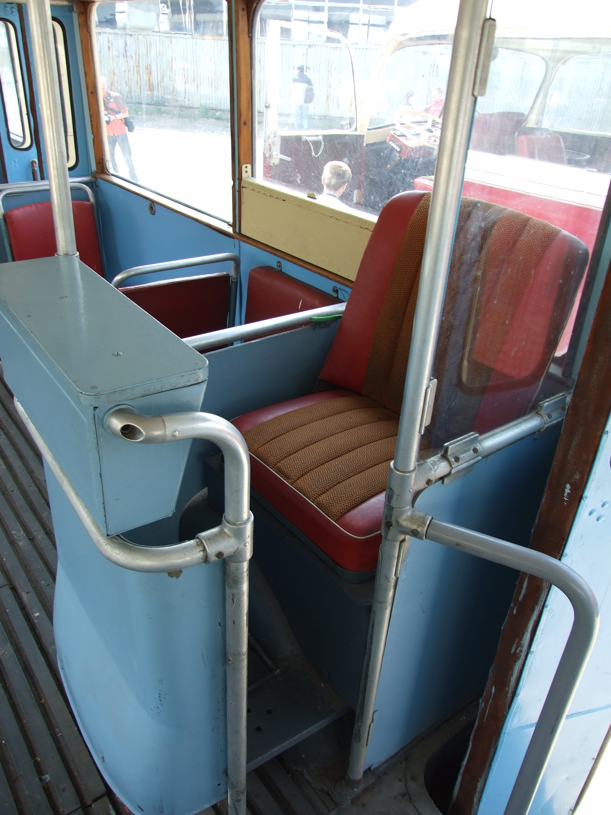 Škoda 8Tr5 trolleybus inside in Brno-Řečkovice.help